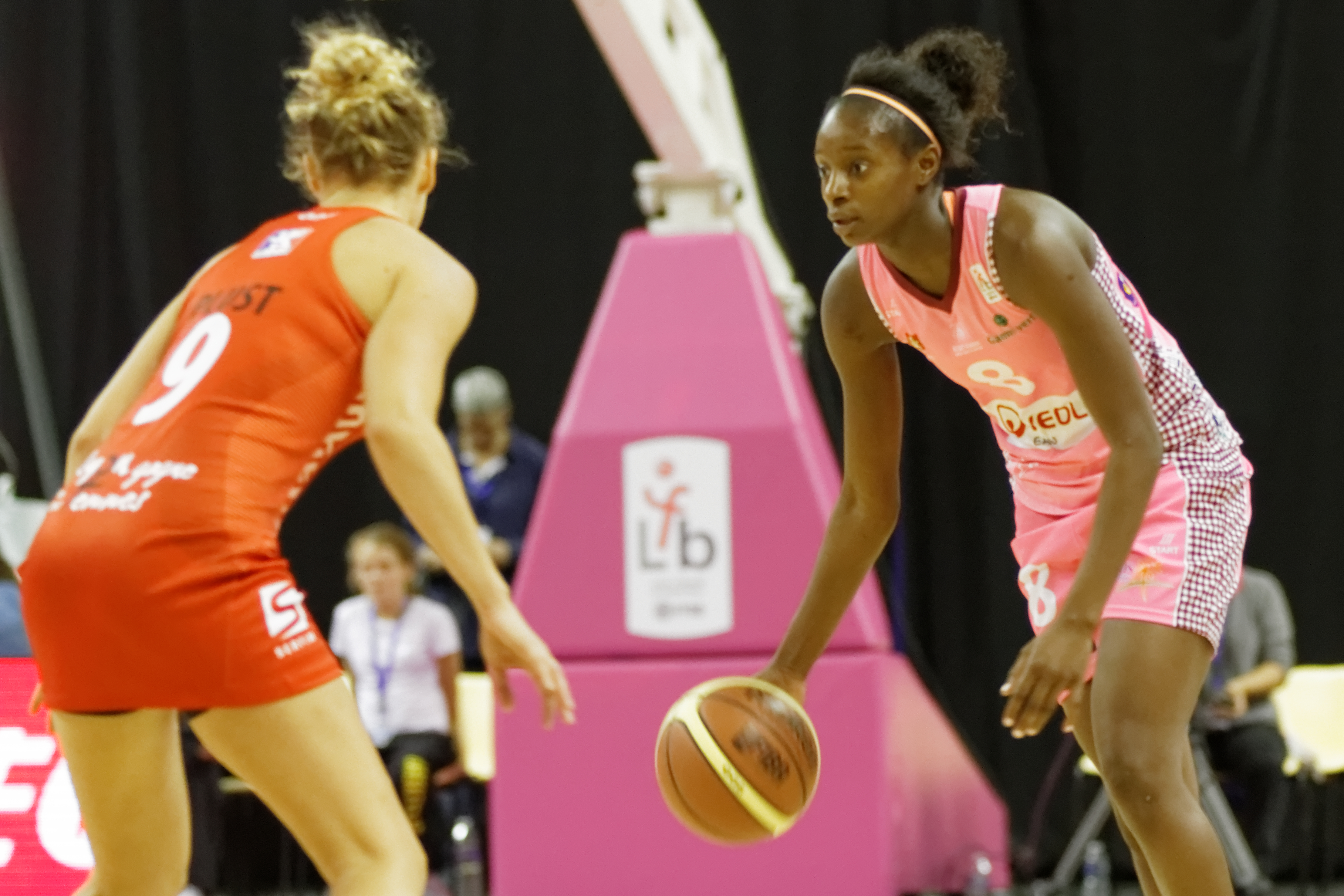 Open LFB, Arras-Lyon, October 6th, 2013.